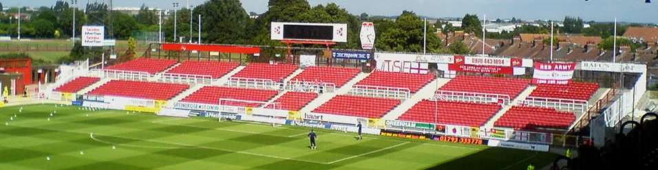 The Stratton Bank stand at the County Ground stadium in Swindon. Taken by myself.